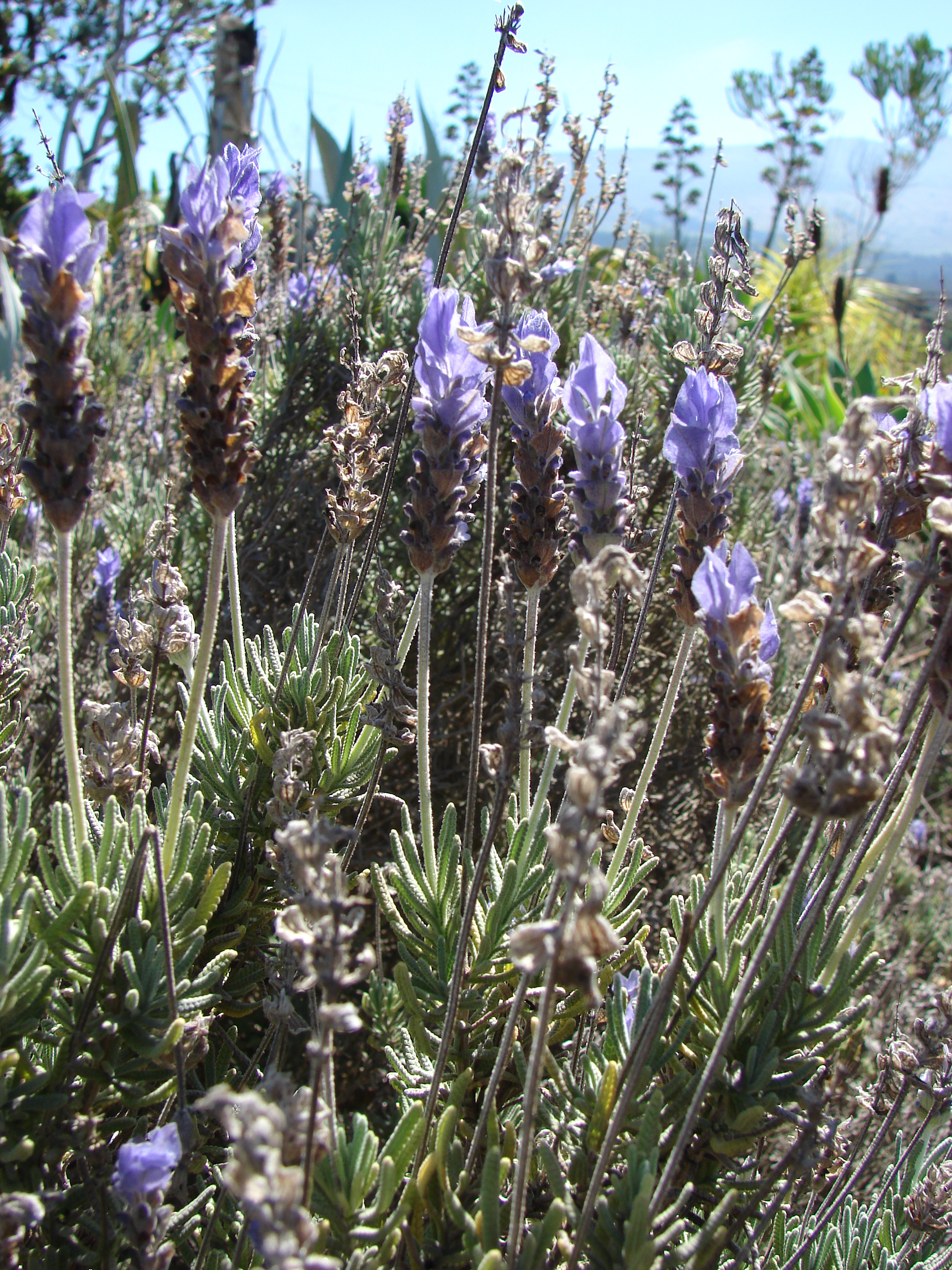 Lavandula dentata (flowering habit). Location: Maui, Enchanting Floral Gardens of Kula